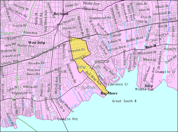 U.S. Census 2000 reference map for Brightwaters